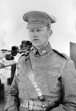 Victoria, Melbourne, Point Cook. Portrait of Lieutenant (Lt) Henry Neilson Wrigley, Australian Flying Corps. Wrigley was awarded the Distinguished Flying Cross serving with 3 Squadron in France in 1918. He later wrote a unit history "The Battle Below, Being the History of 3 Sqn AFC" which was published in 1935.